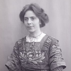 Suffragette Gladice Keevil 1910 picture. Taken by Linley Blathwayt at Eagle House near Batheaston. Linley died in 1919